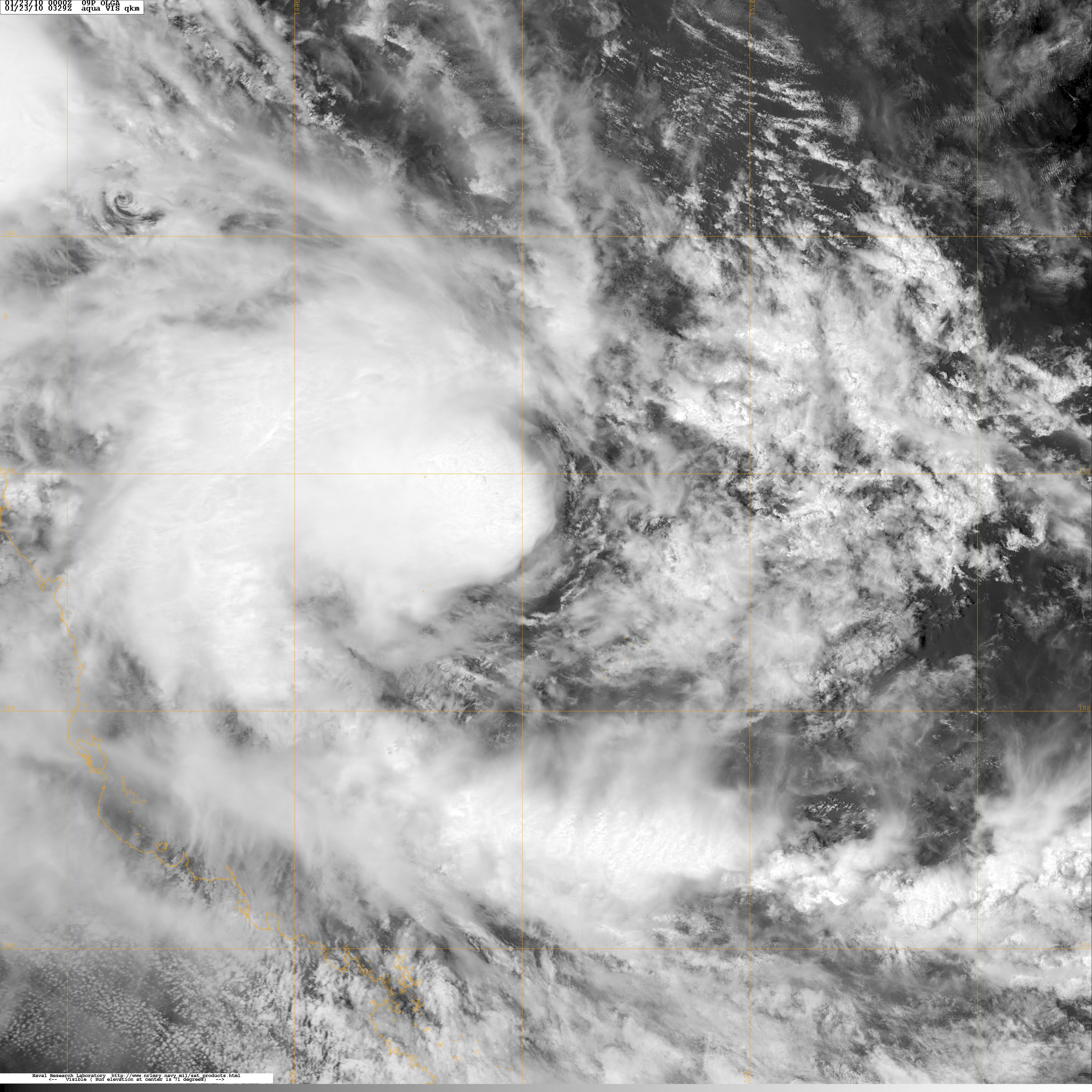 Tropical Cyclone Olga (09P) on January 23, 2010.